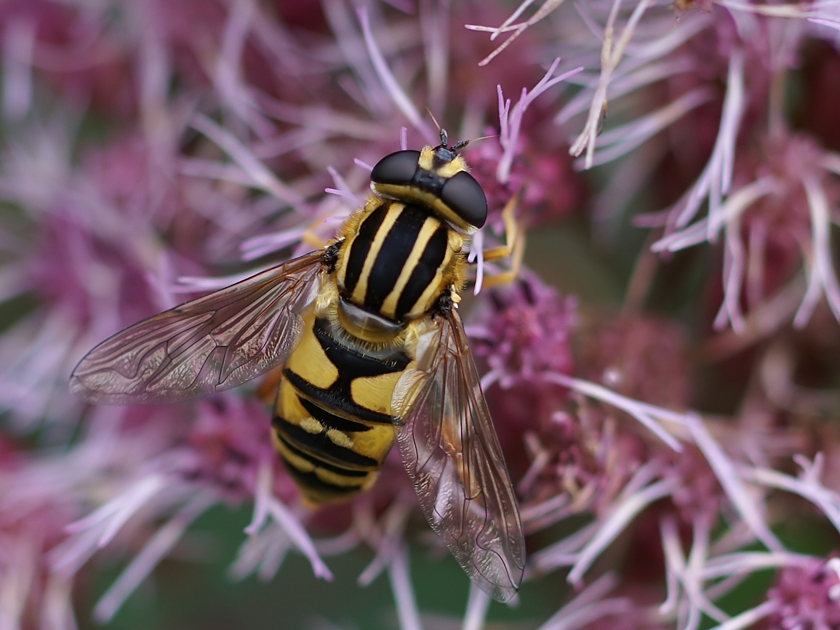 A ♀ hoverfly on Hemp-agrimony at the Kalmthout arboretum in Belgium